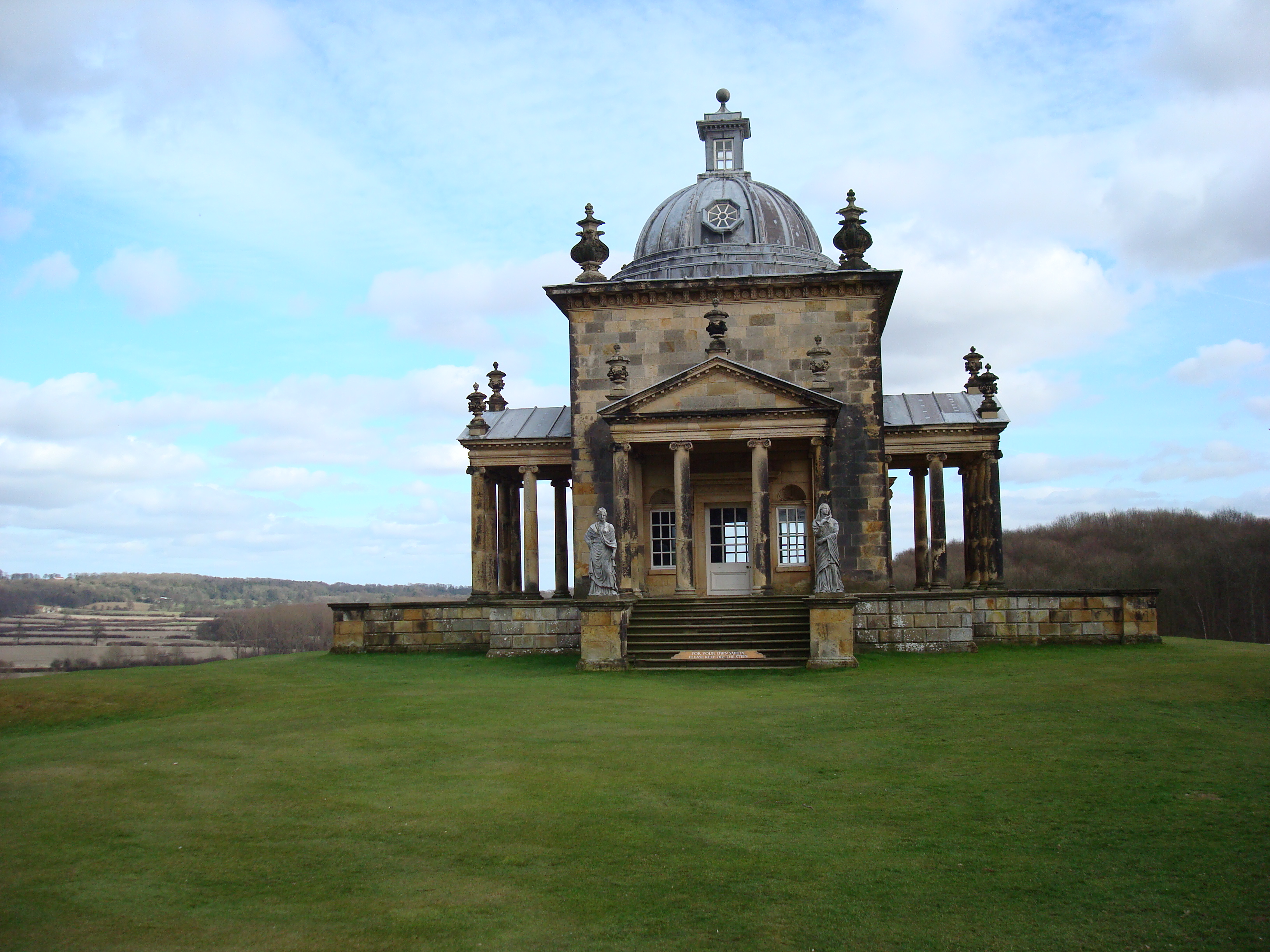 The Temple of the four winds near Castle Howard in Yorkshire, England.